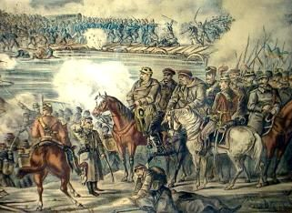 Capturing Pleven